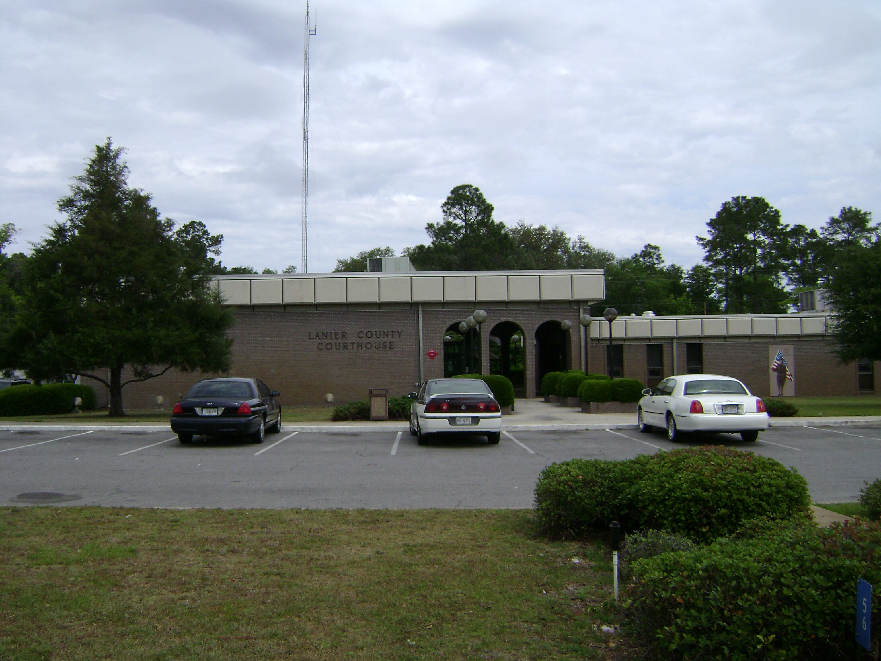 Lanier County Courthouse, 100 Main St., Lakeland, GA 31635